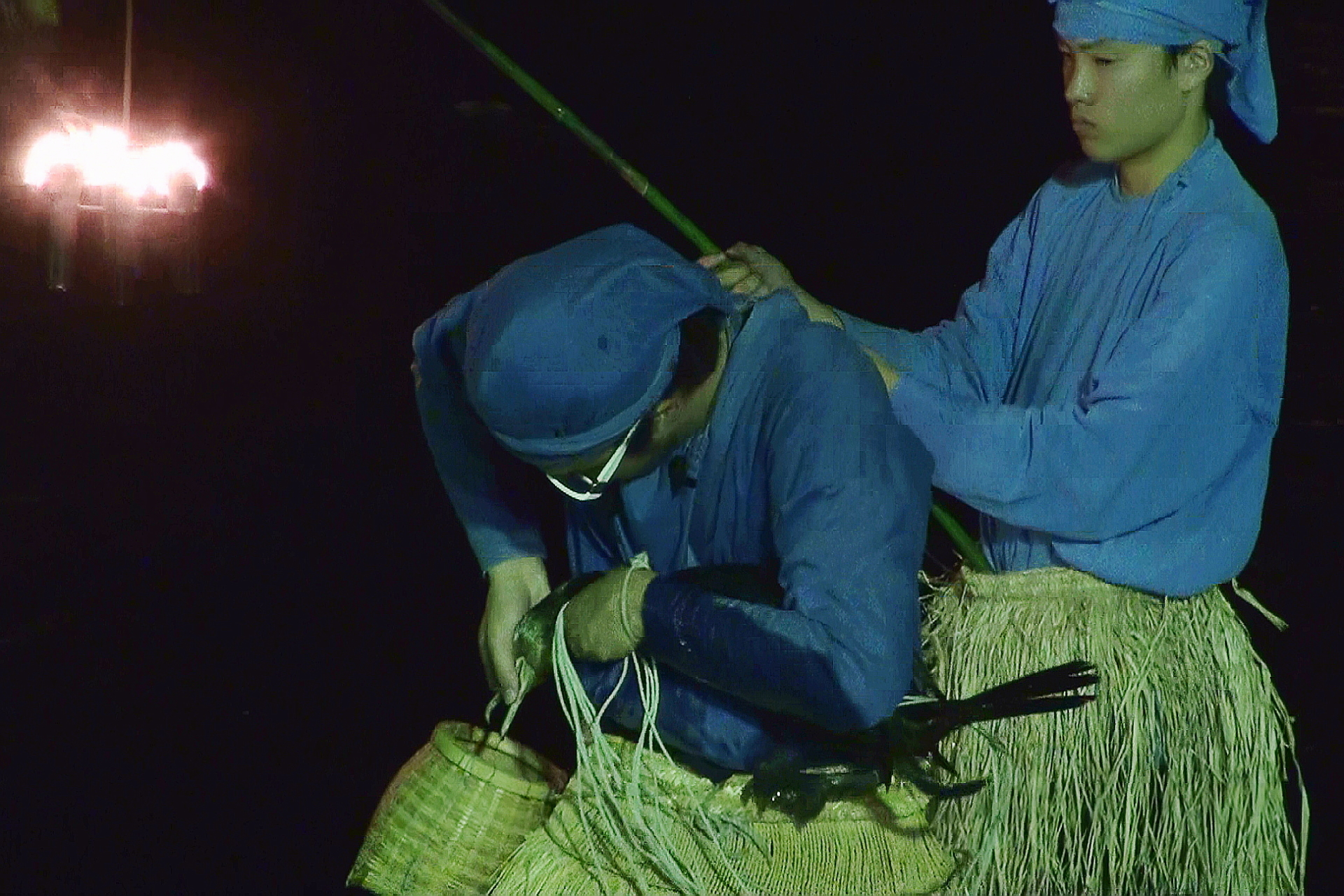 Isawa Ukai Cormorant fishing